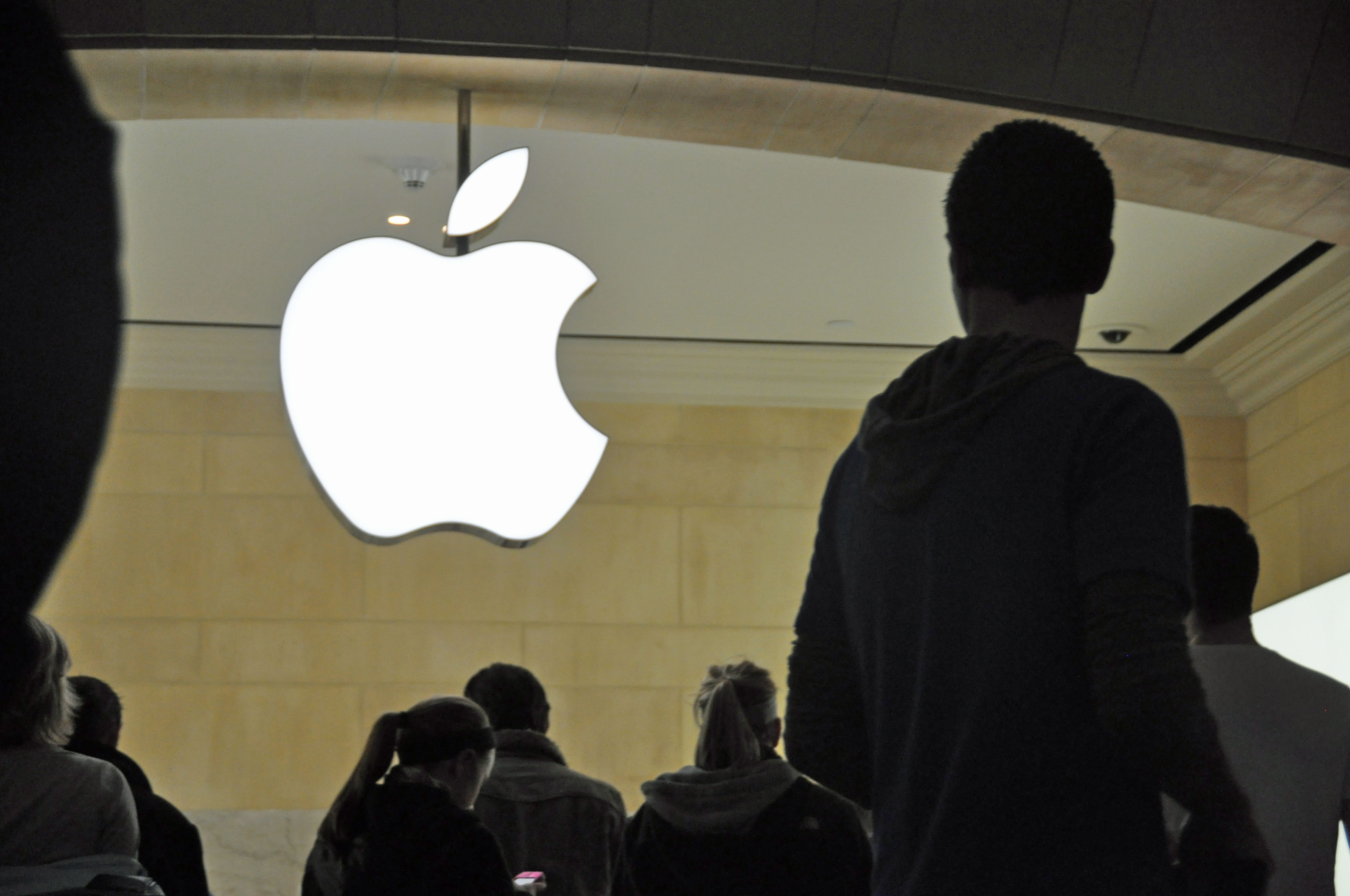 Grand Central Station Apple Store